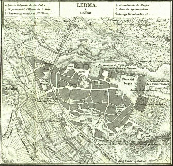 Map of Lerma cropped from the 1868 province of Burgos map by Francisco Coello